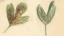 Stainton’s Natural History of the Tineina (1855–1873): Phyllonorycter corylifoliella and two mined hawthorn leaves